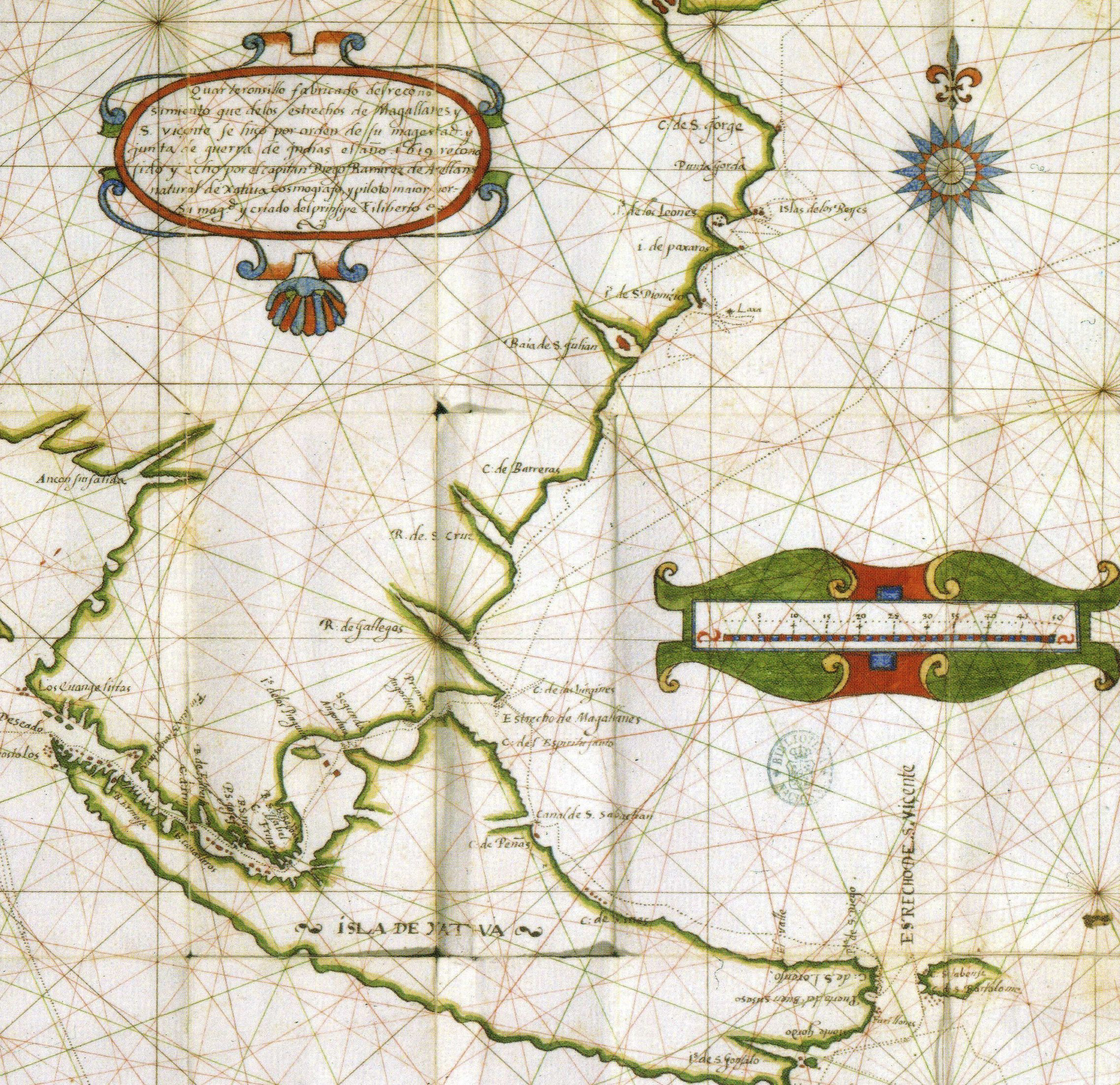 Map by Diego Ramírez de Arellano of Illa de Xàtiva, nowaday Isla Grande de Tierra del Fuego